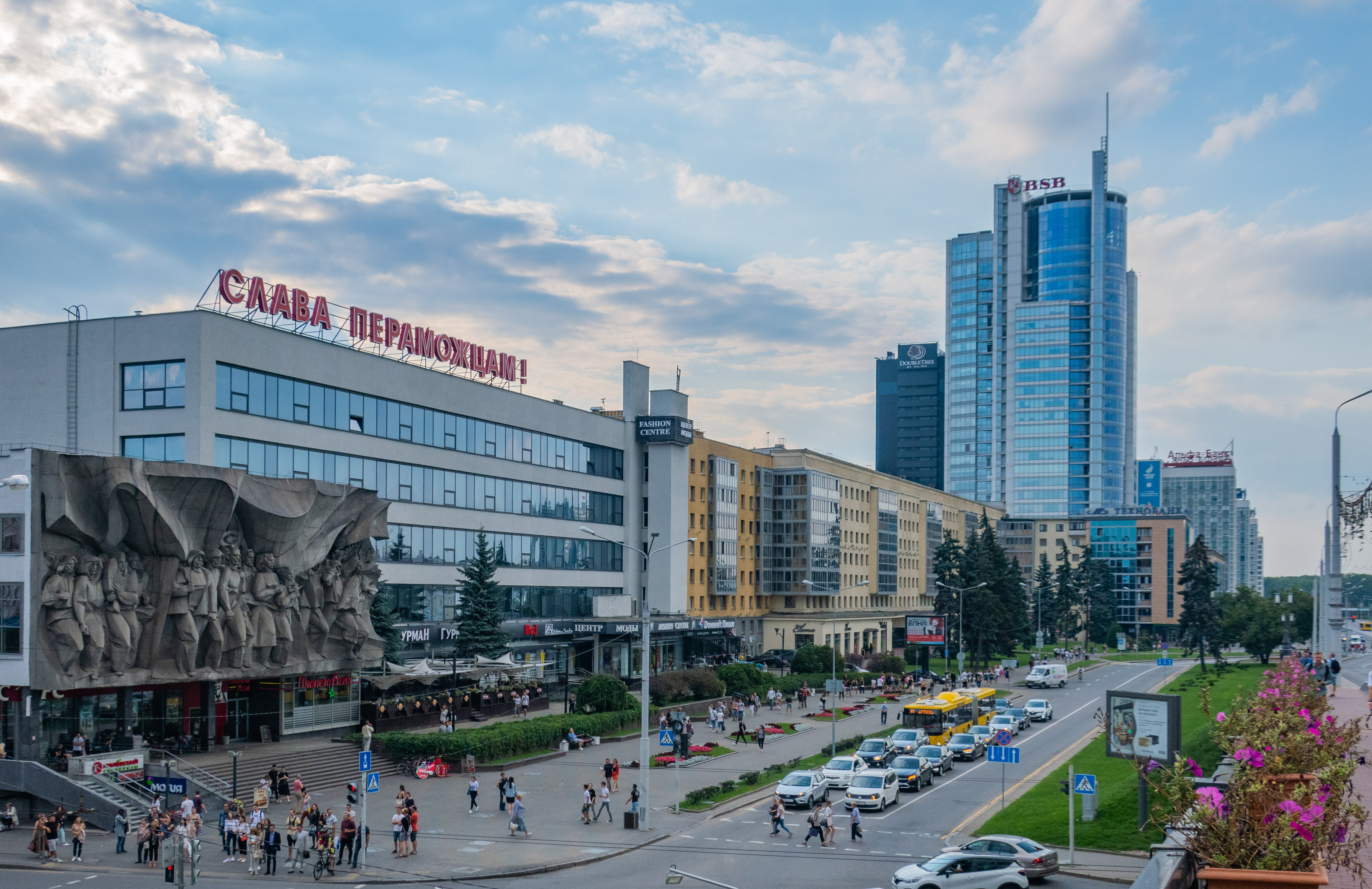 Pieramožcaŭ avenue. Minsk, Belarus